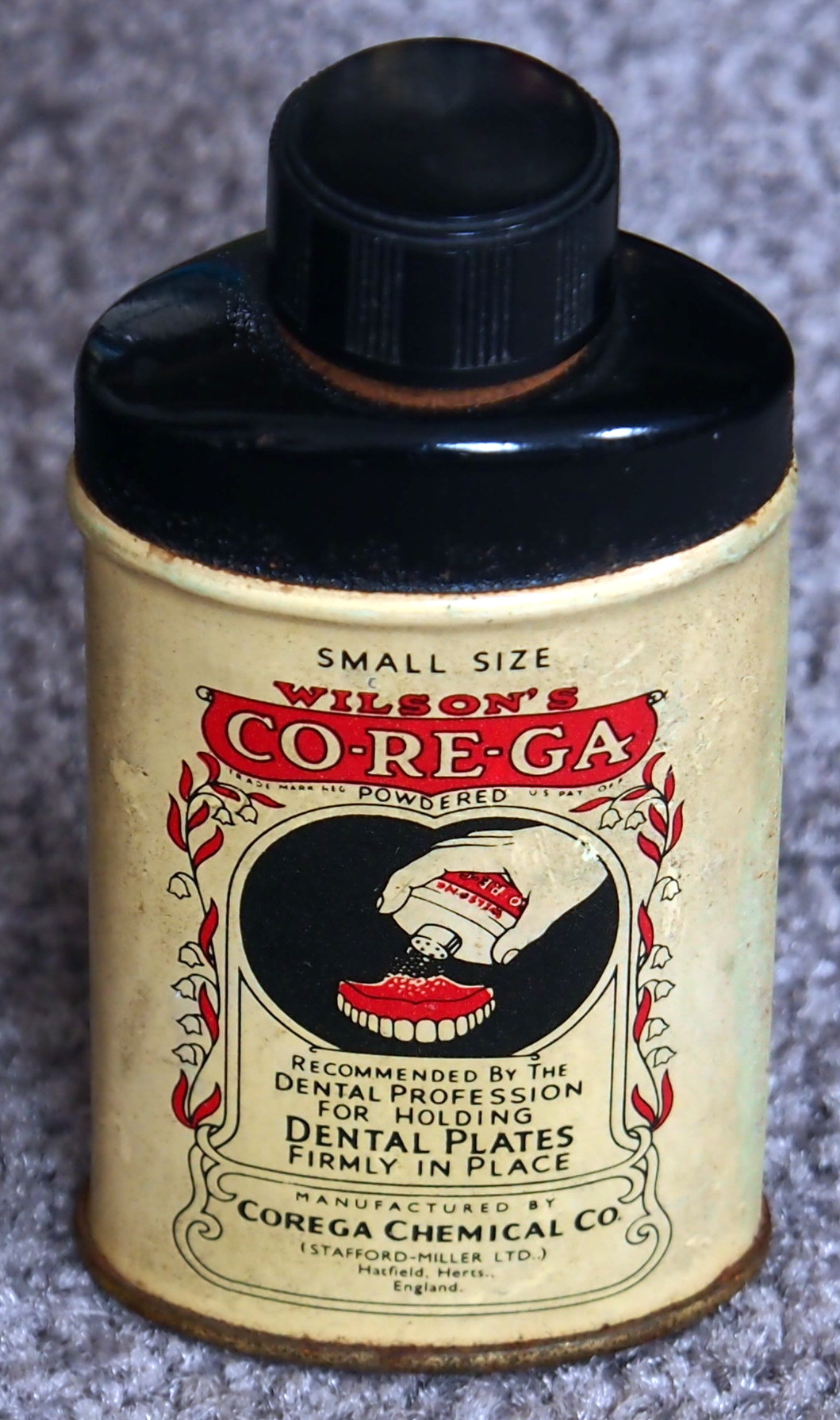 Very old product that is not produced and not sold any more. Note that some tins may look the same, but when looked for carefully there are some slight differences!